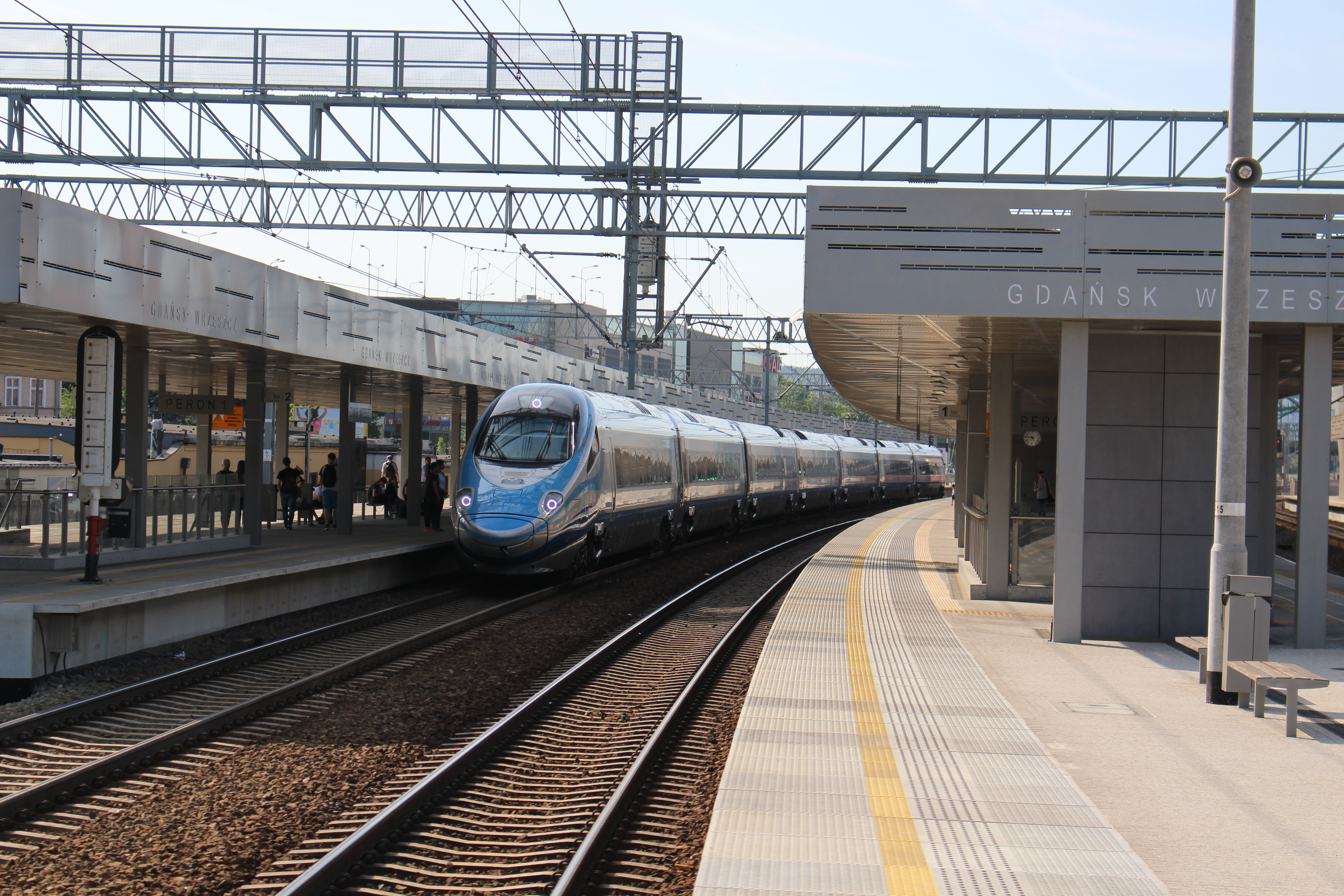 A view of a Pendolino train at the modernised station Gdańsk Wrzeszcz on 24 May 2016.